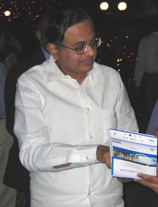 Indian politician Palaniappan Chidambaram. Taken in the city of Baramati in the district of Pune, India. The photo was labelled with a tag implying it was taken at some event to do with the "Baramati Initiative in 2006. The image has been cropped and brightened.